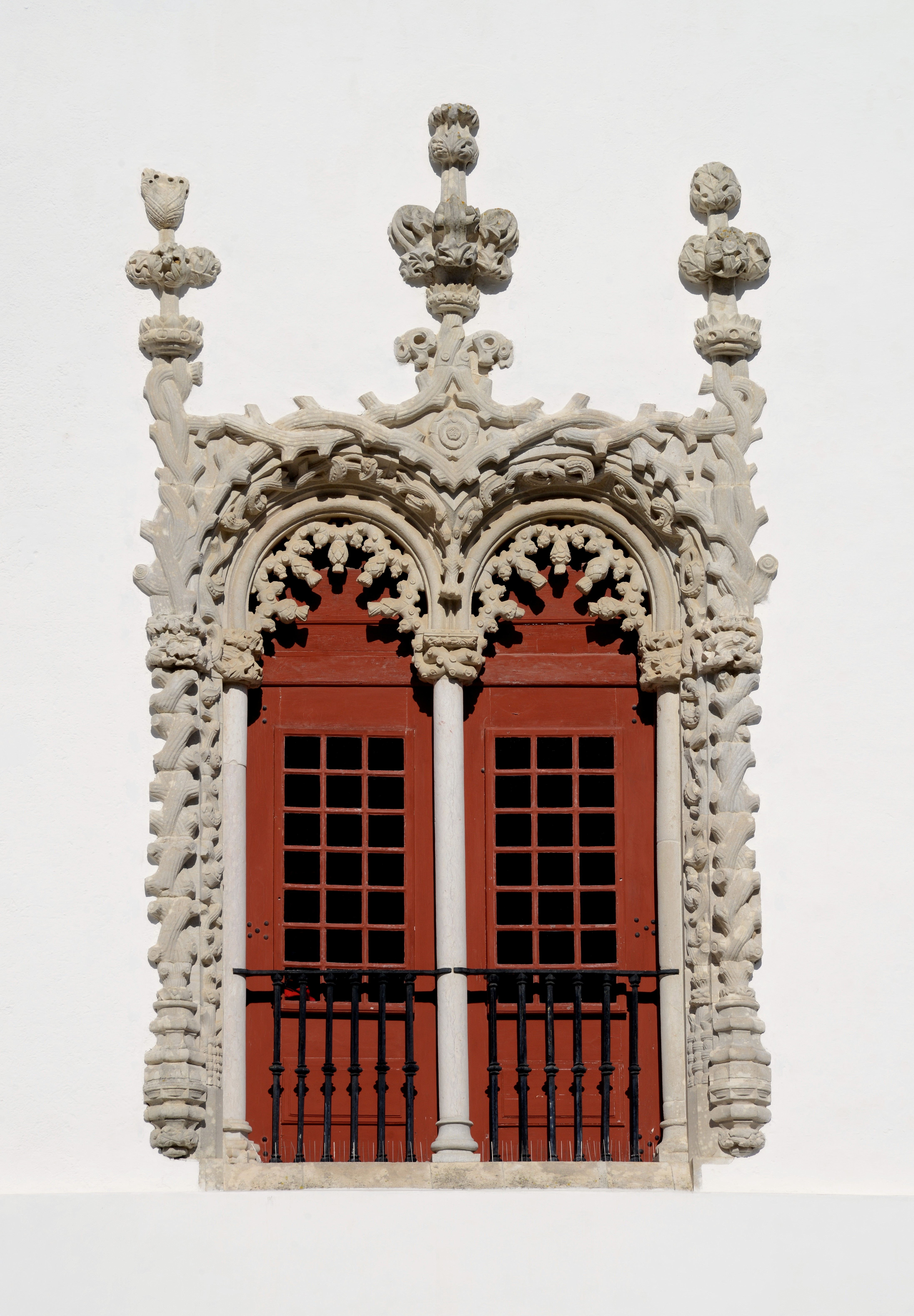 Manueline window in the National Palace of Sintra, Portugal